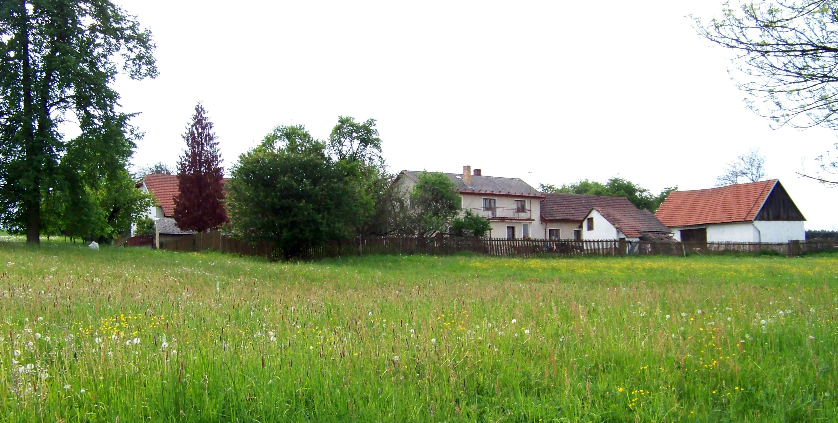 Ješetice-Řikov, Benešov District, Central Bohemian Region, the Czech Republic. Houses No. 7 and 8.